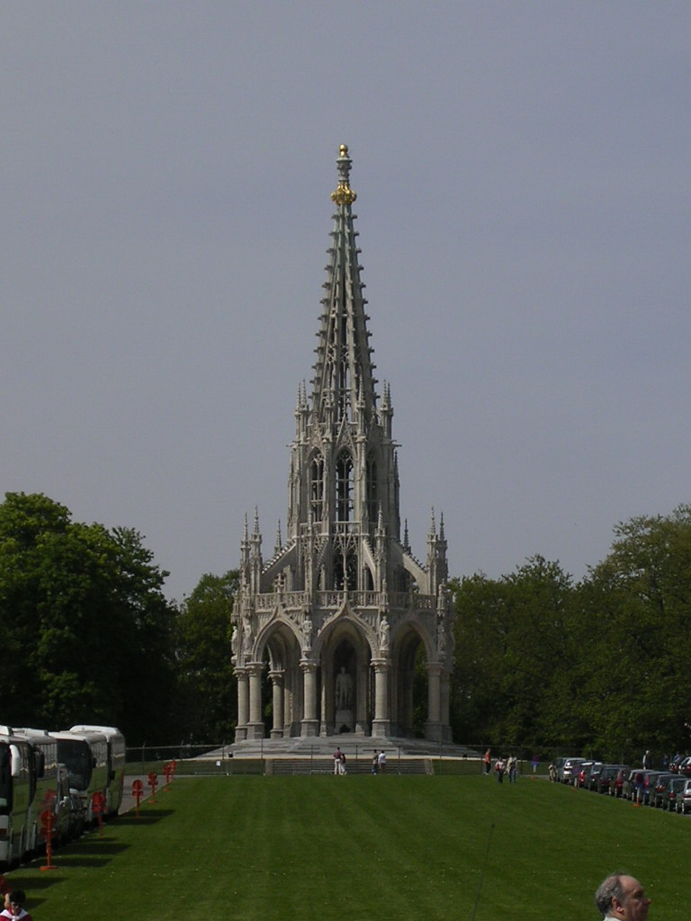 Monument of the dynasty, erected in memory of king Leopold I, Laeken Park in laeken, Brussels, Belgium